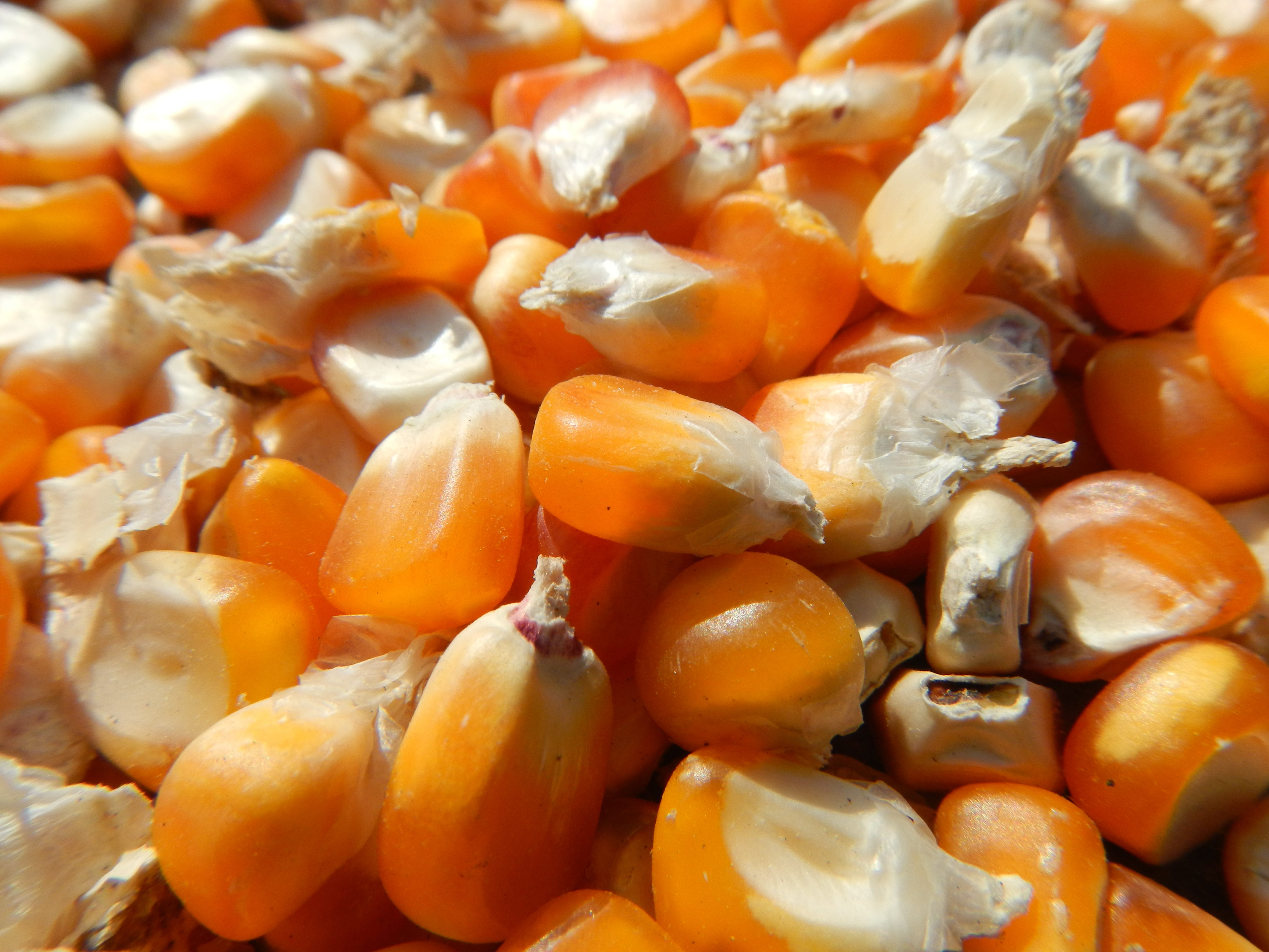 Maize kernels Barangay San Pedro Saug, Lubao, Pampanga.